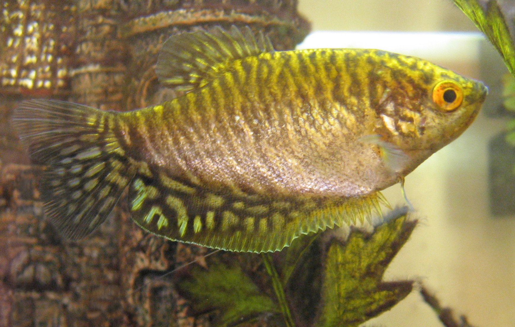 A five-year-old "golden" gourami (Trichogaster trichopterus), owned by the author. Image by Pharaoh Hound.